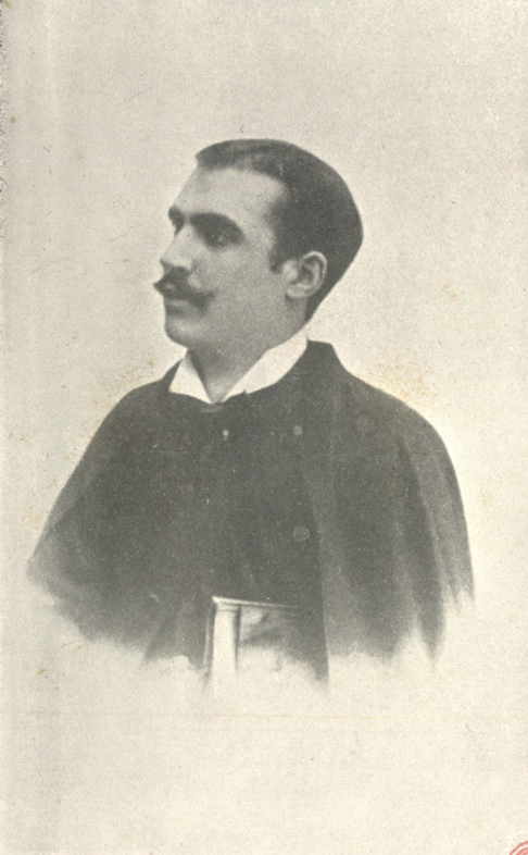 Photograph of Portuguese Republican politician José Eugénio Ferreira, included in the Album Republicano, published in 1908.